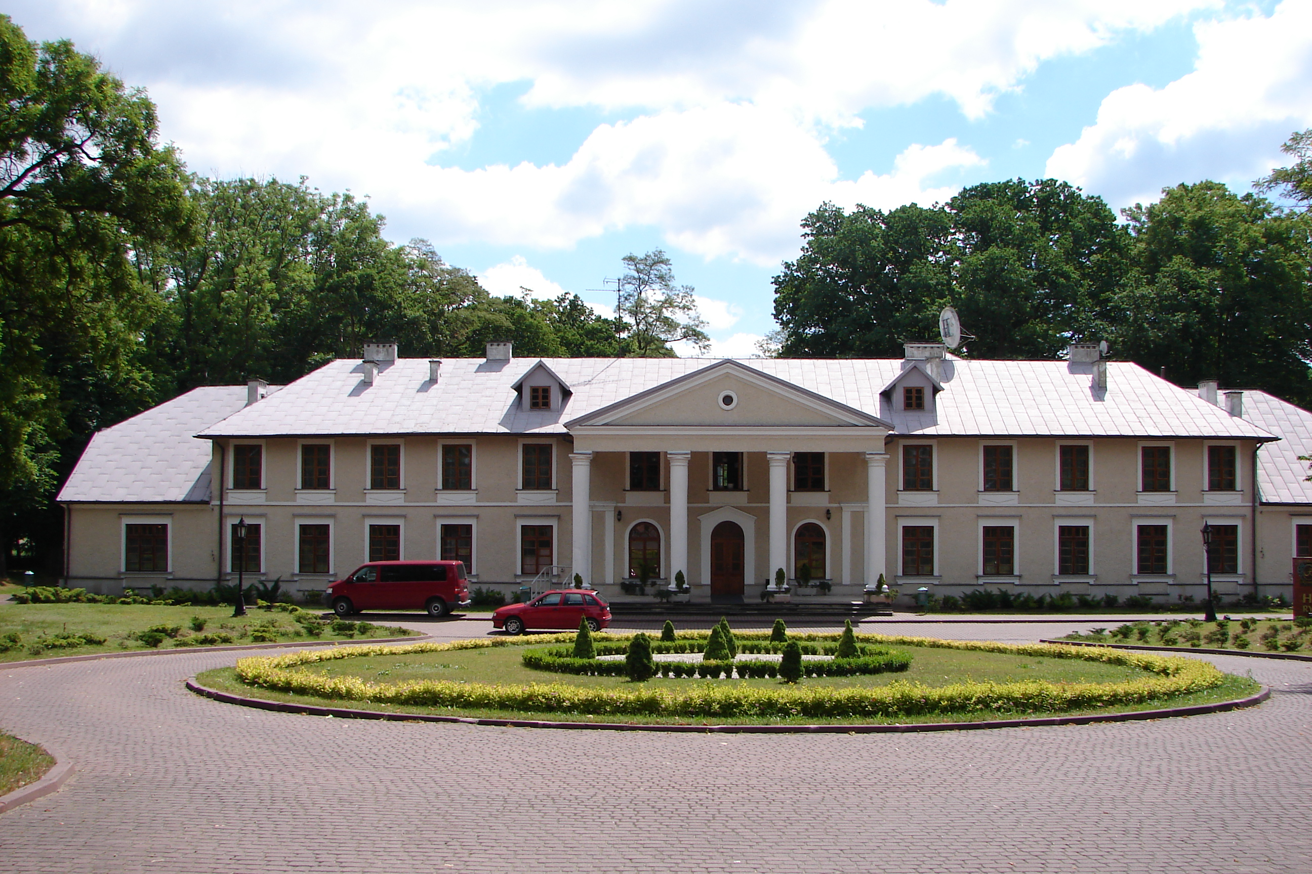 Palace in Rytwiany